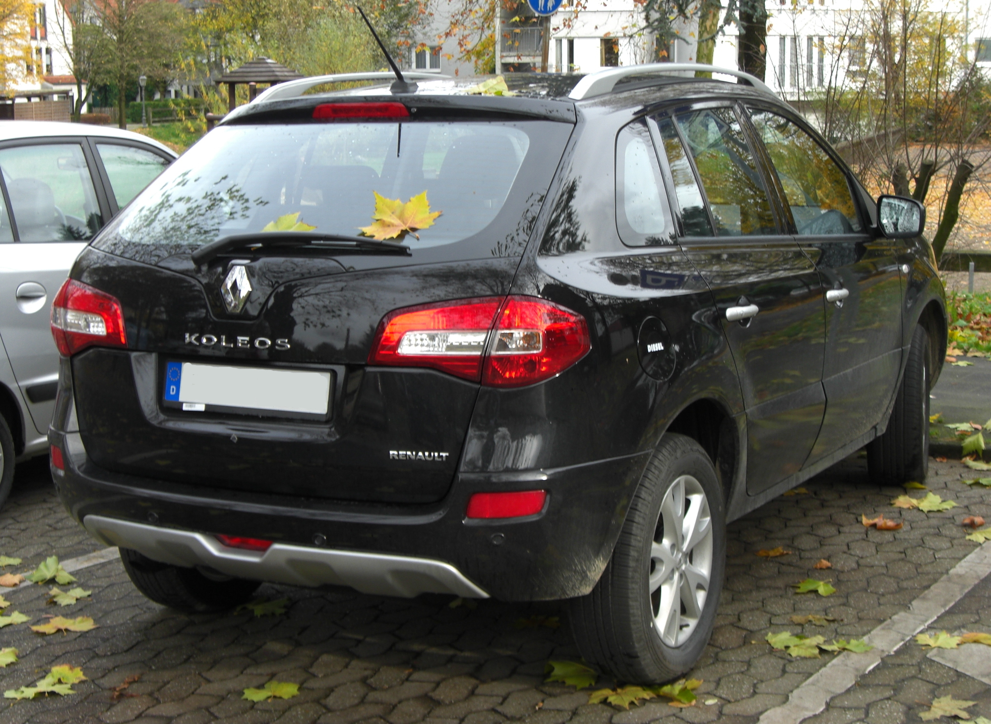 Description: Renault Koleos Source: Matthias Other Version(s)